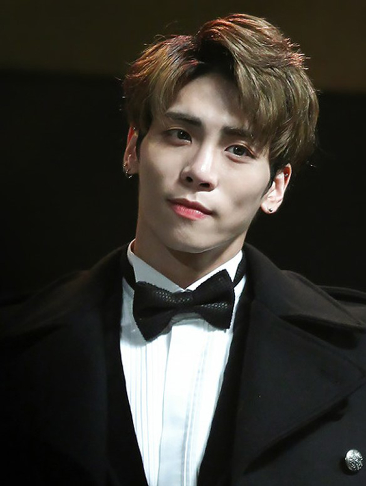 Jonghyun at Korean Popular Culture And Arts Awards on October 27, 2016.